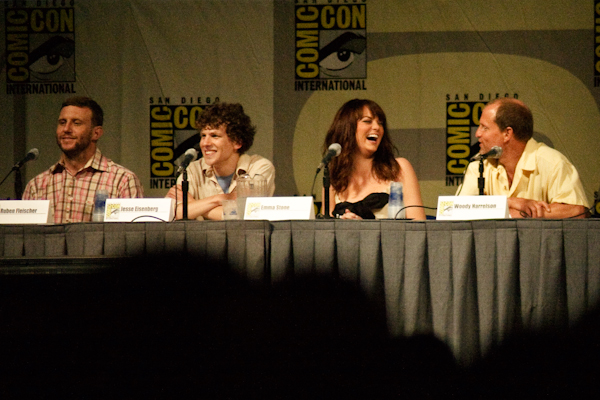 Zombieland panel, Comic-Con '09.